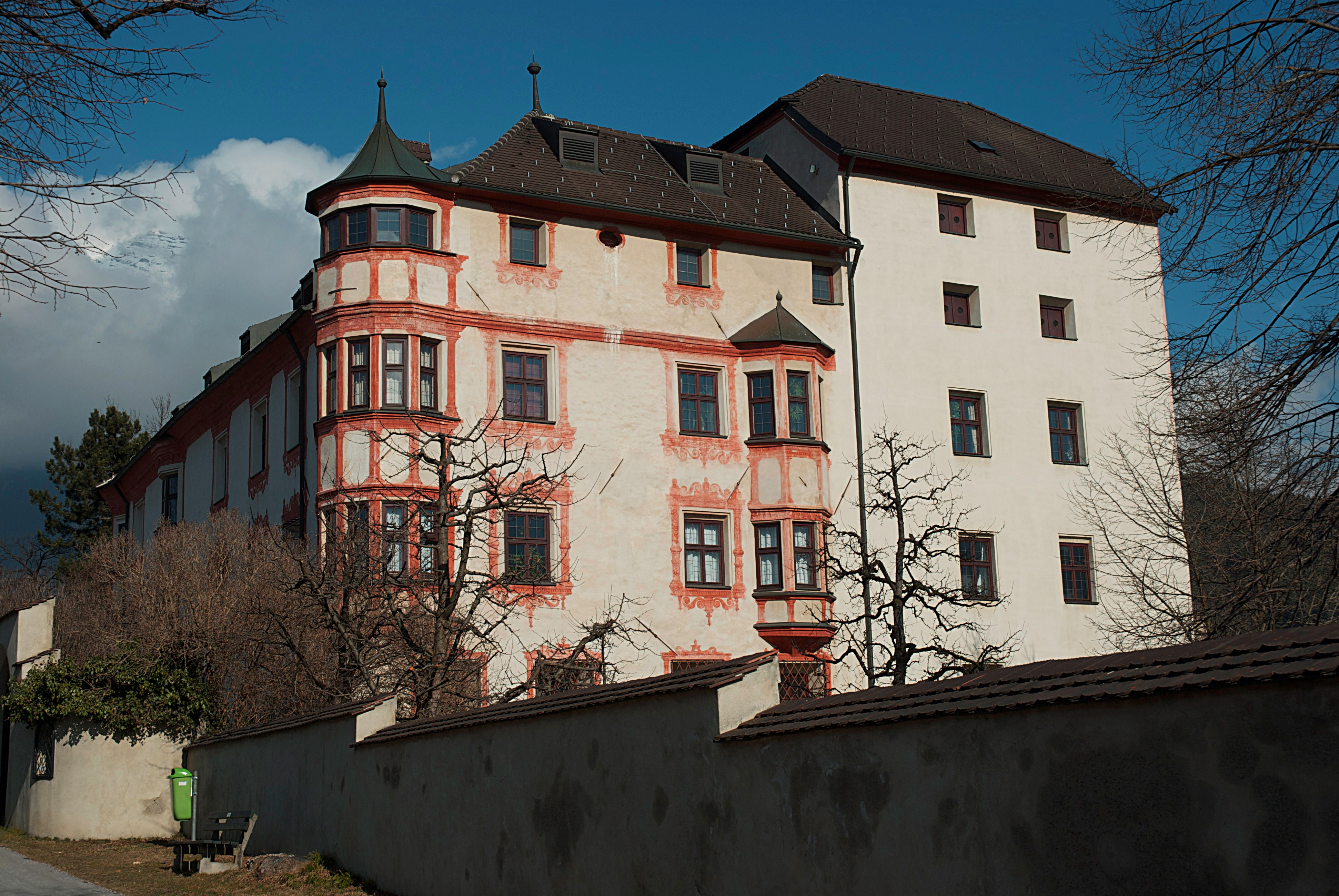 Schneeburg Castle in Mils